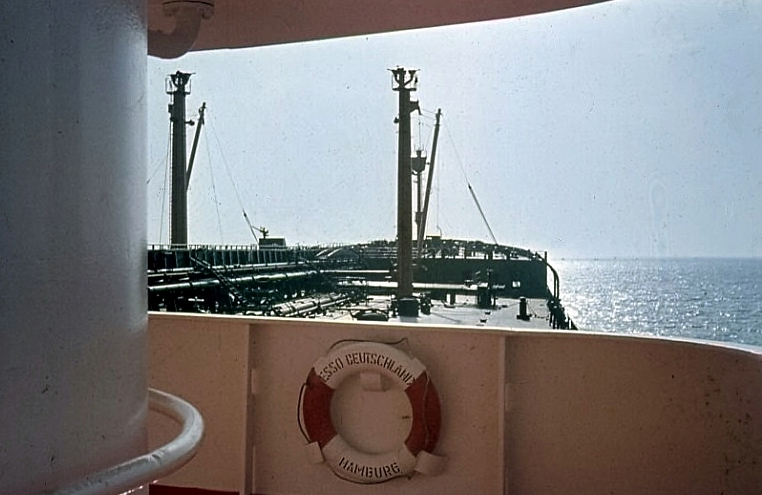 Starboard bridge wing of Esso Deutschland at sea in April 1965